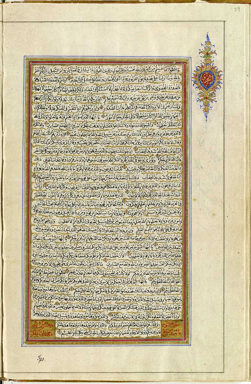 Scan of a Qur'an from the year 1874